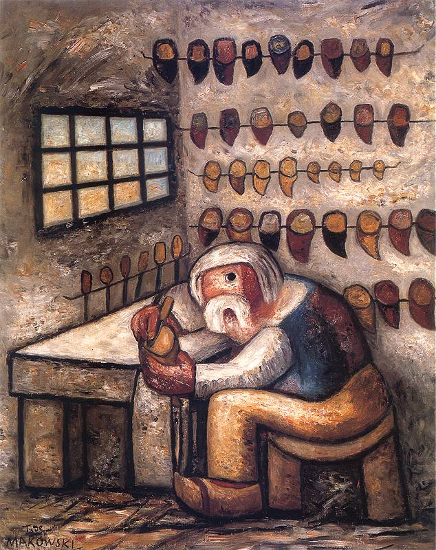 Tadeusz Makowski:The Shoemaker